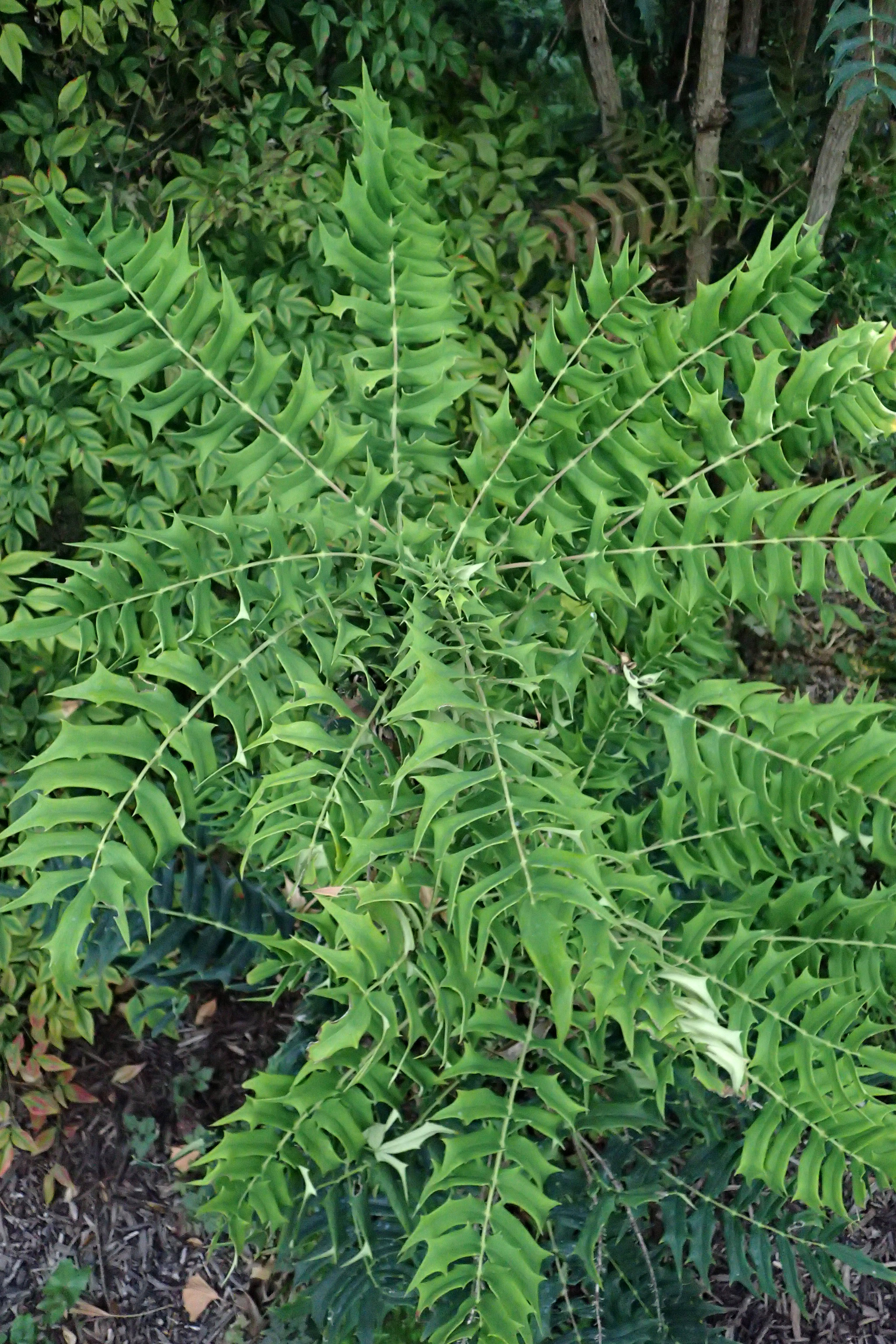 Mahonia oiwakensis in the San Francisco Botanical Garden